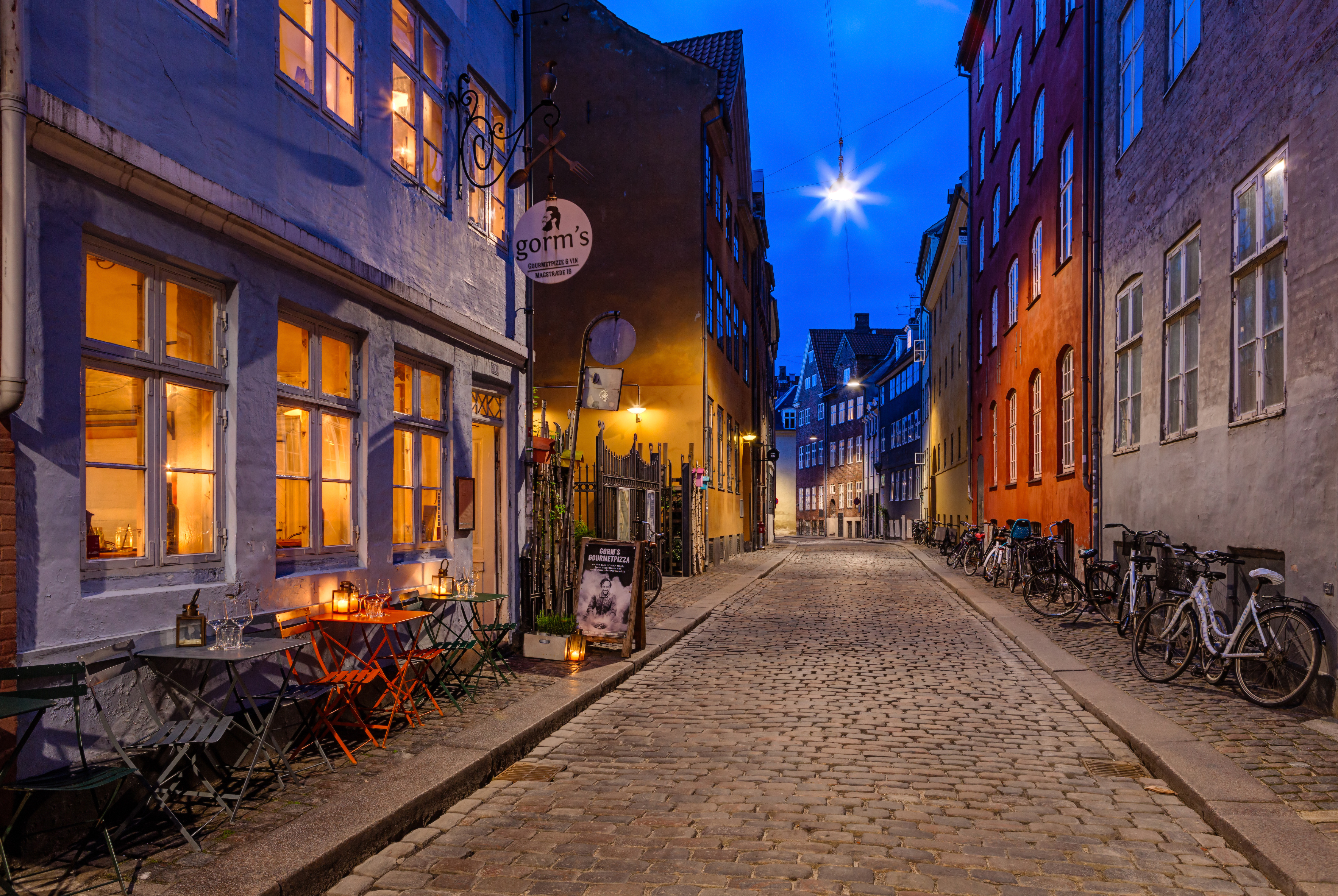 Magstræde street, Copenhagen, Denmark.